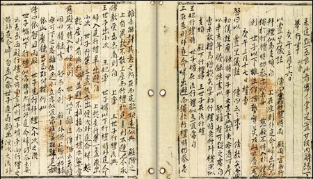 Korean_text_French_Library